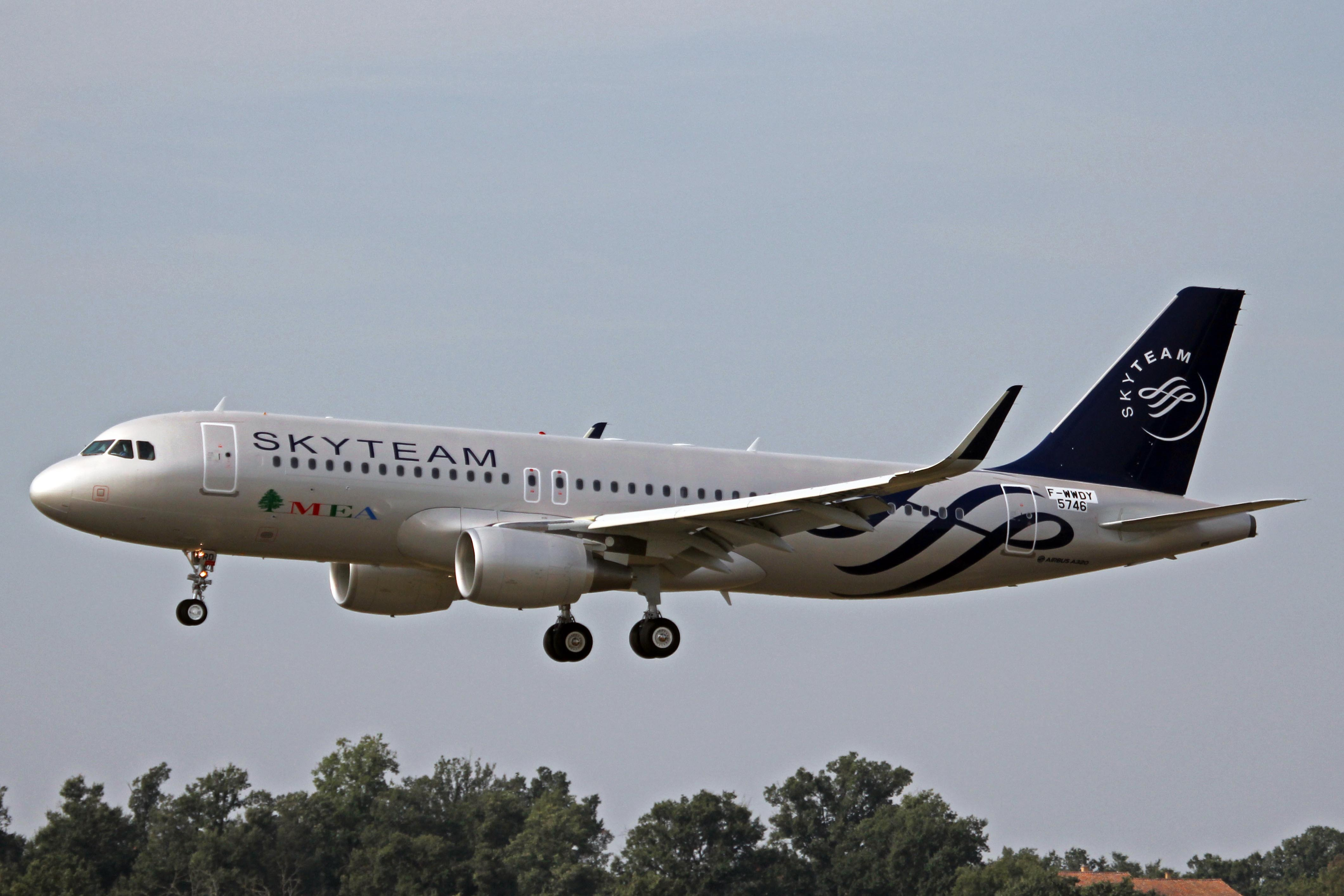 A picture of an airplane (name of it is on the file name).